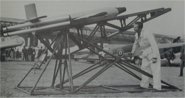 A Fairey "Stooge" surface-to-air missile, displayed on launching apparatus with D.H. Mosquito in background.